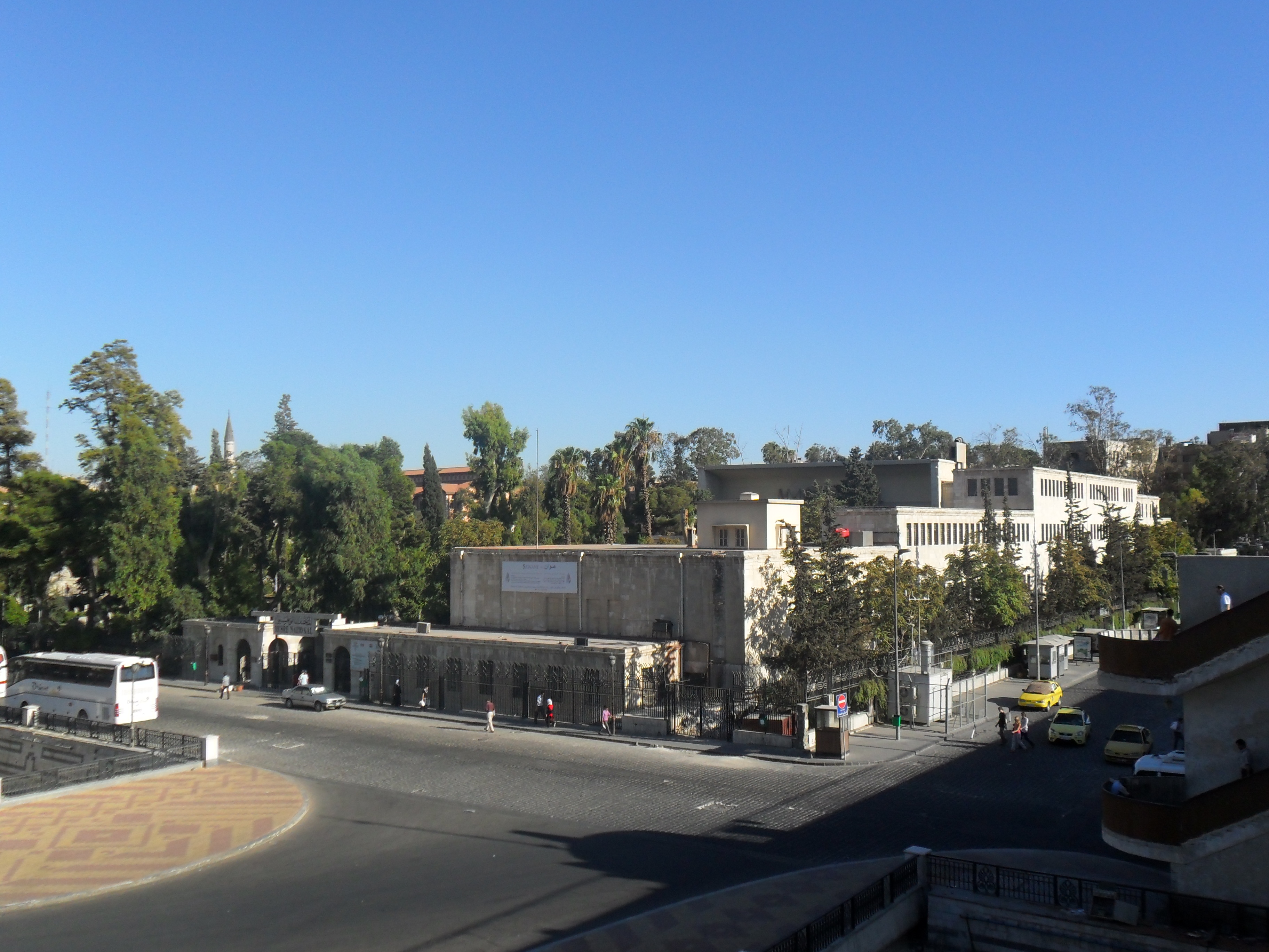 The National Museum of Damascus, Syria, photographed from the Presidential Bridge